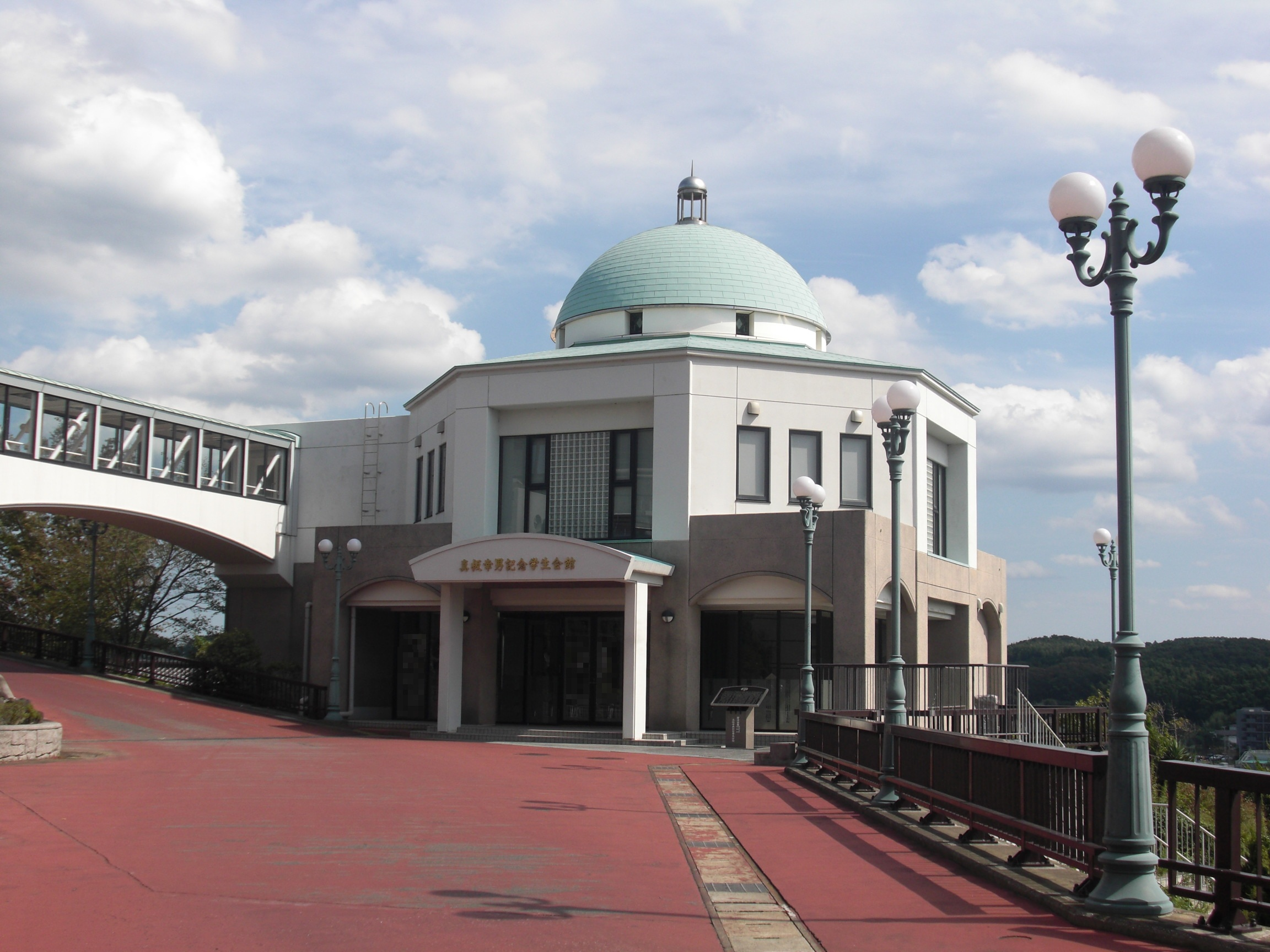 This is the Students' Hall in Seiwa University.